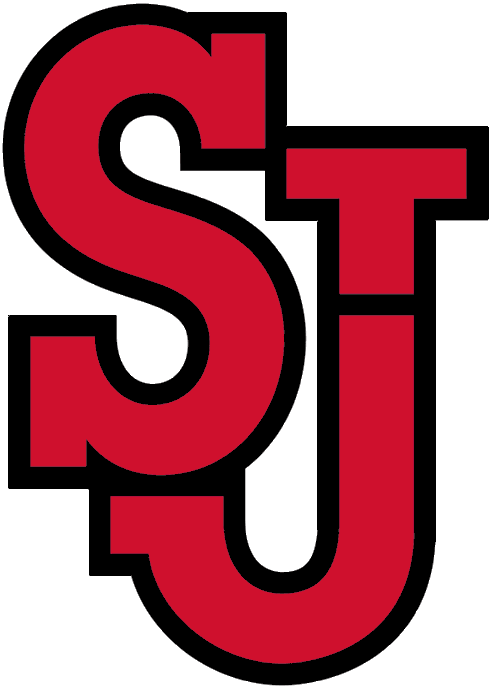 St. John's University Athletics logo.